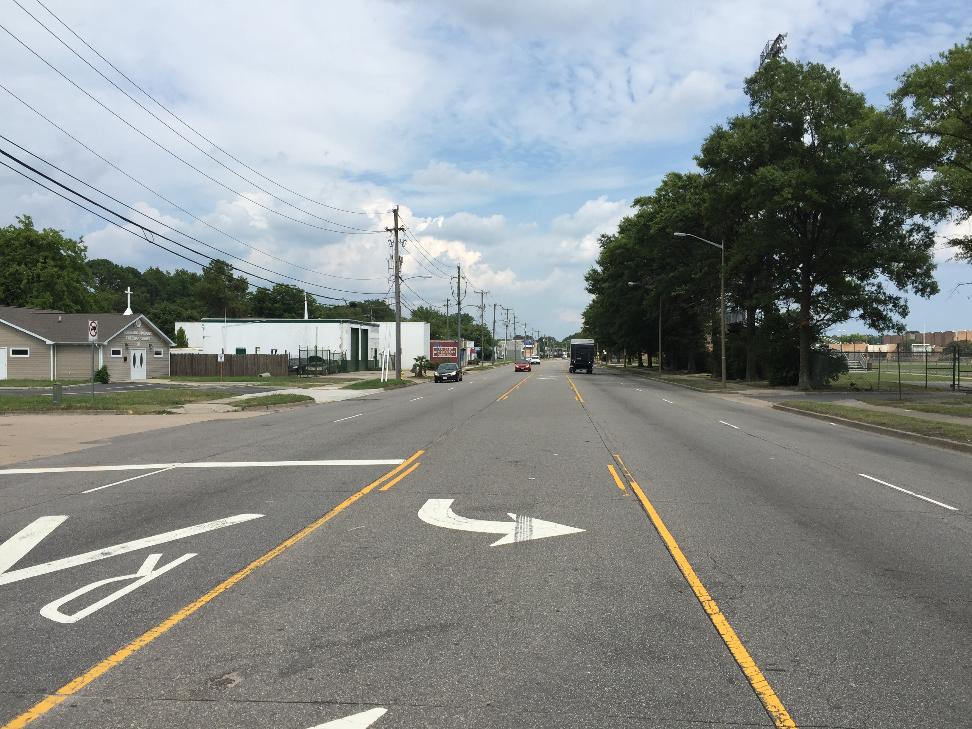 View east along Virginia State Route 404 (Princess Anne Road) at May Avenue in Norfolk, Virginia